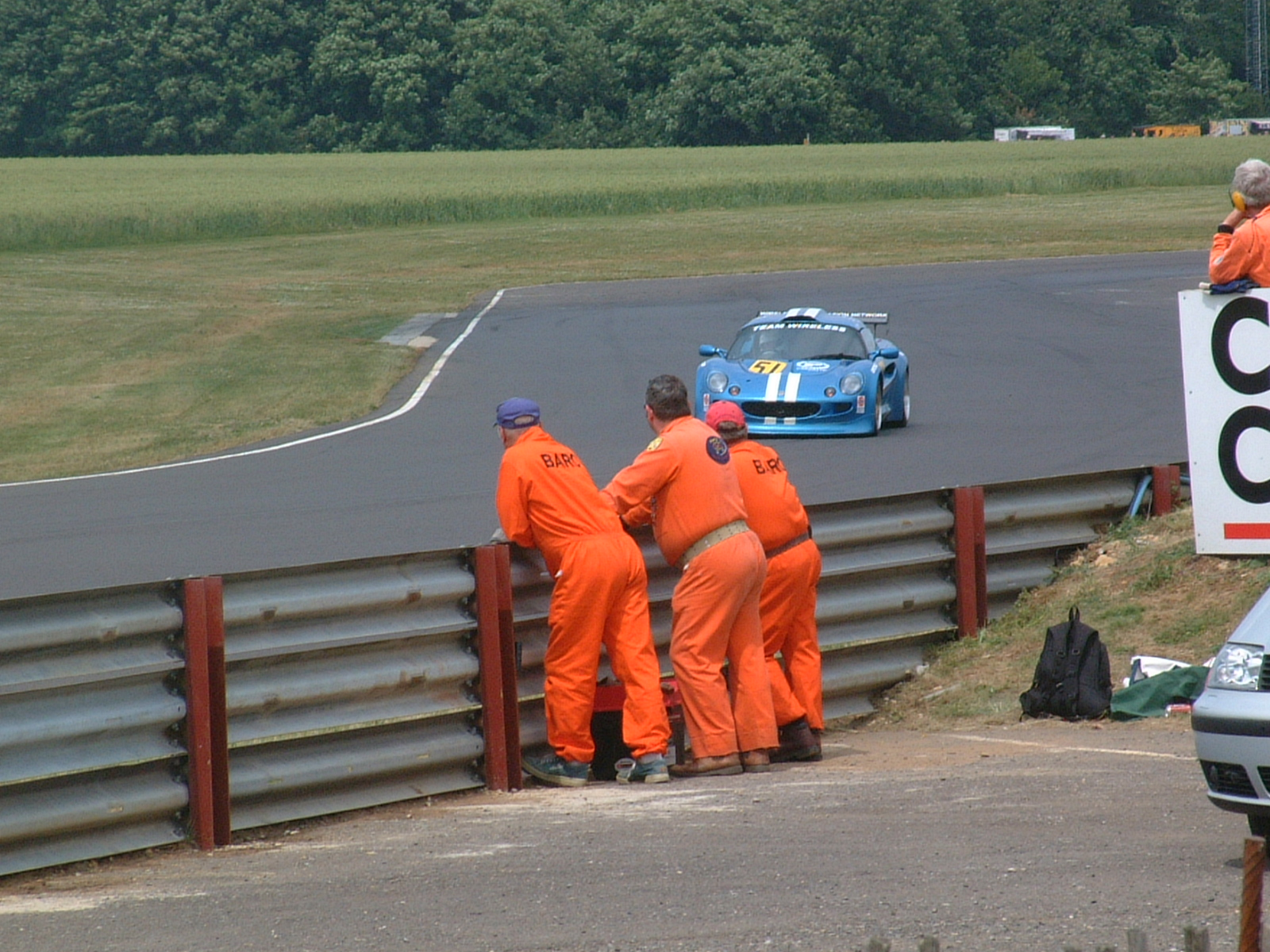 The British GT Championship at Castle Combe.